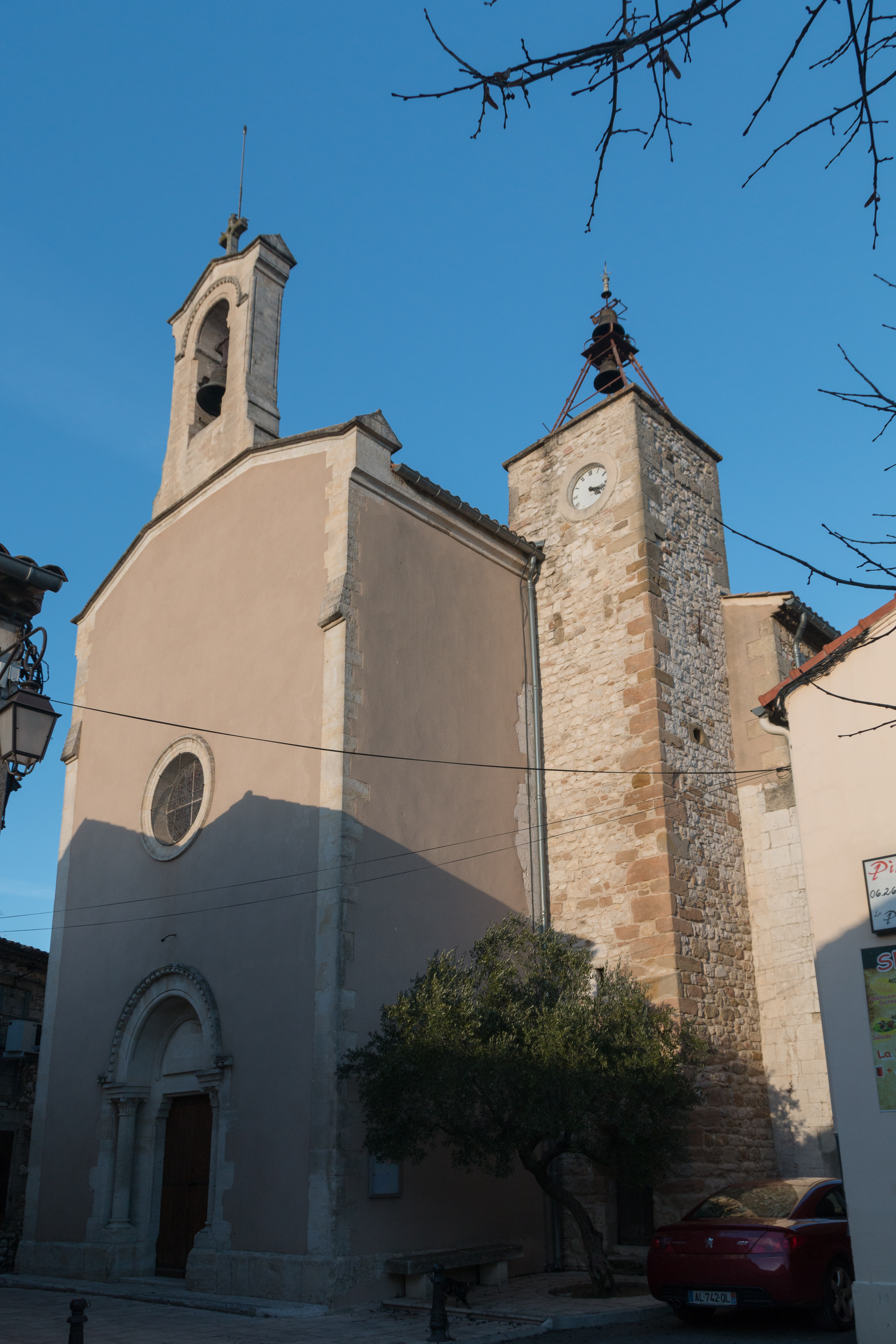 Church Saint Mamert, (12th c, rebuilt on the 19th)